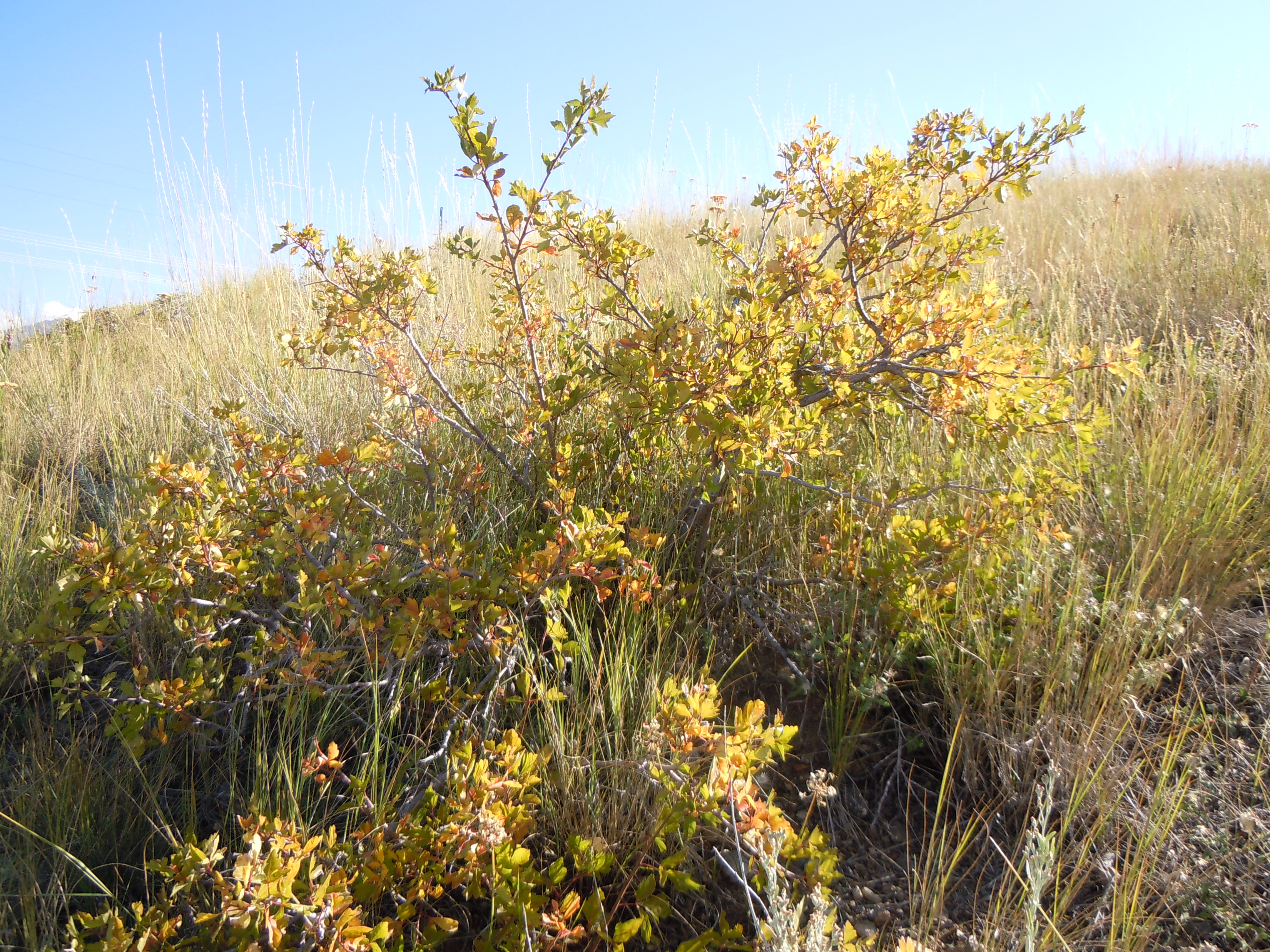 Skunkbush sumac is uncommon in the Bozeman area and is found only on the hotter exposures (like Toxicodendron, the other common member of Anacardiaceae in this area).